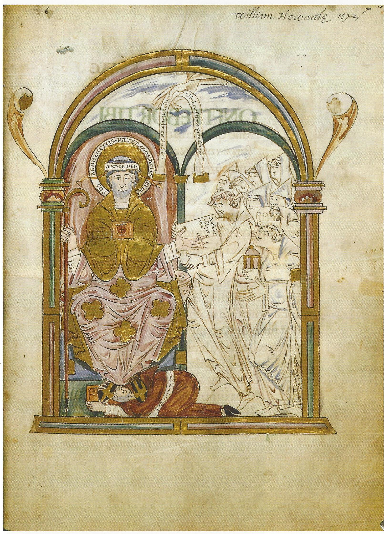 Portrait of Eadwig from the Eadwig Psalter, London, BL, Ms Arundel, 155, Fol. 133